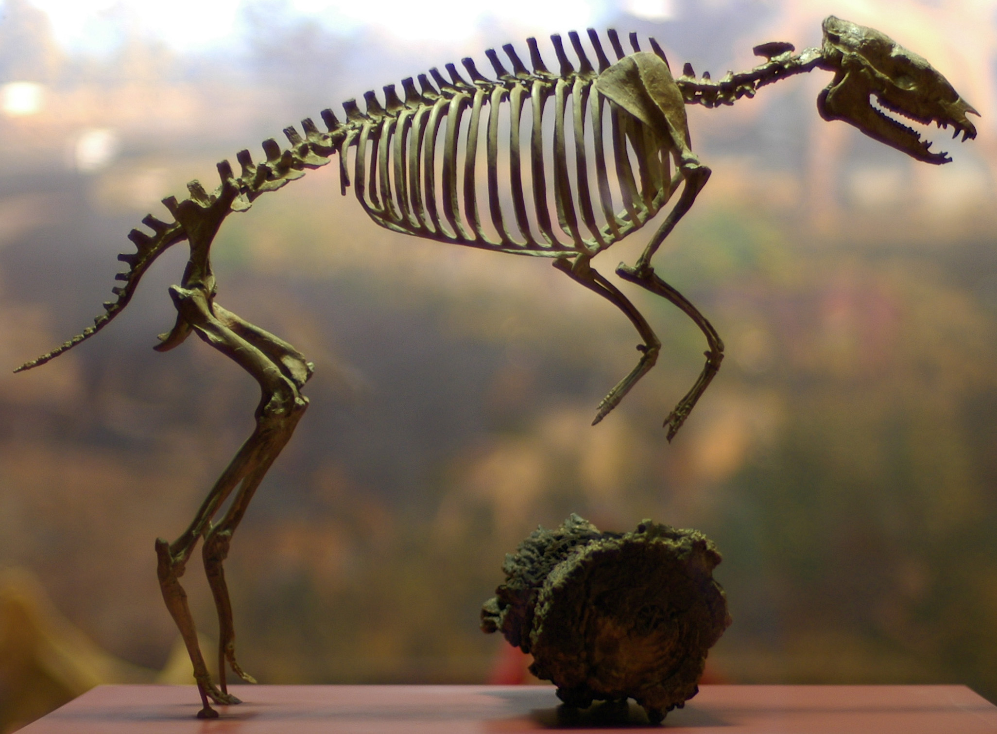 Hyracotherium vasacciensis skeleton, National Museum of Natural History, Washington, D.C., USA.